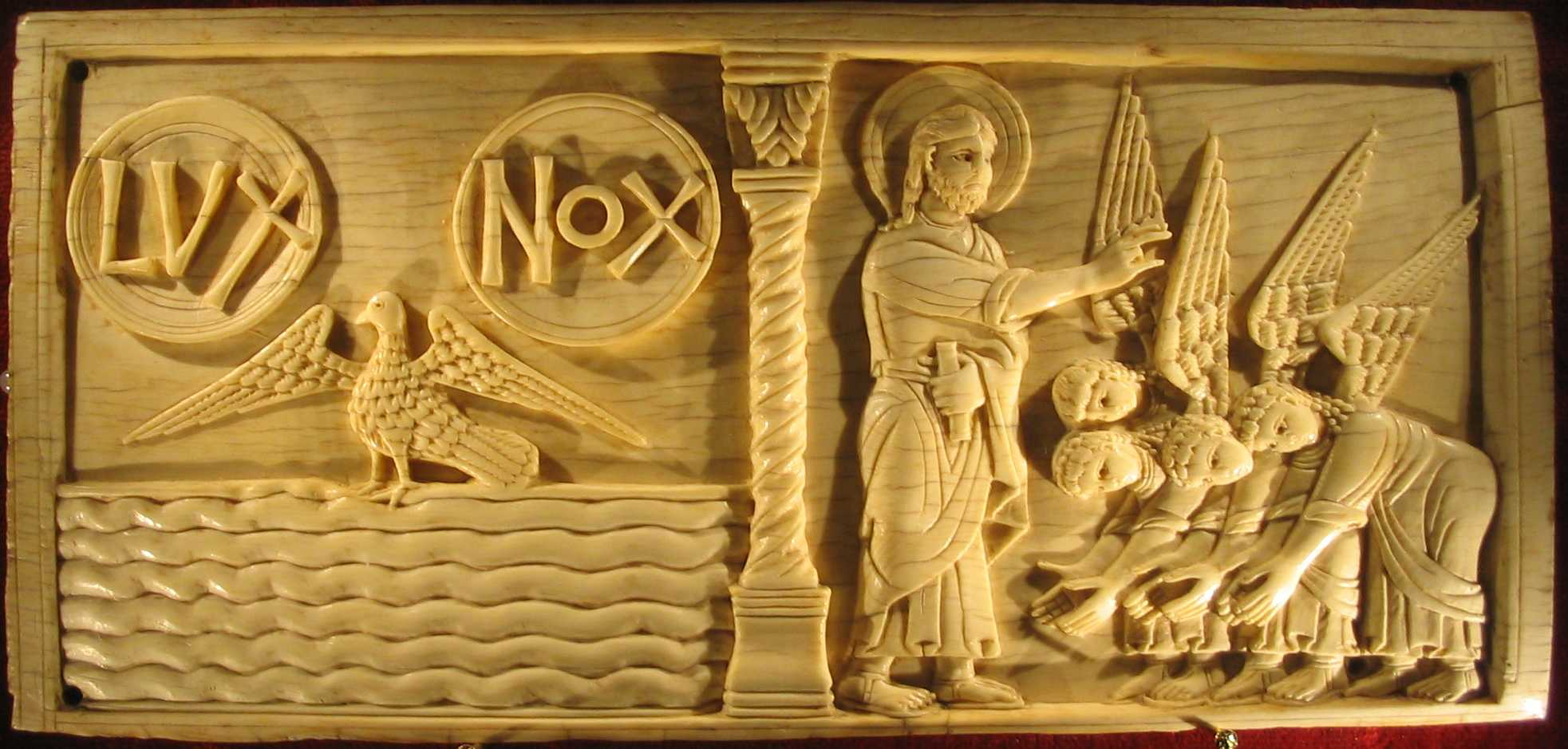 Old Testament - The First day of Creation, Salerno medieval ivories: ivory panel from the cathedral of Salerno, ca. 1084.